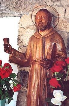 I took this picture in March 2006. Statue of San Hermano Pedro at his shrine near El Médano.